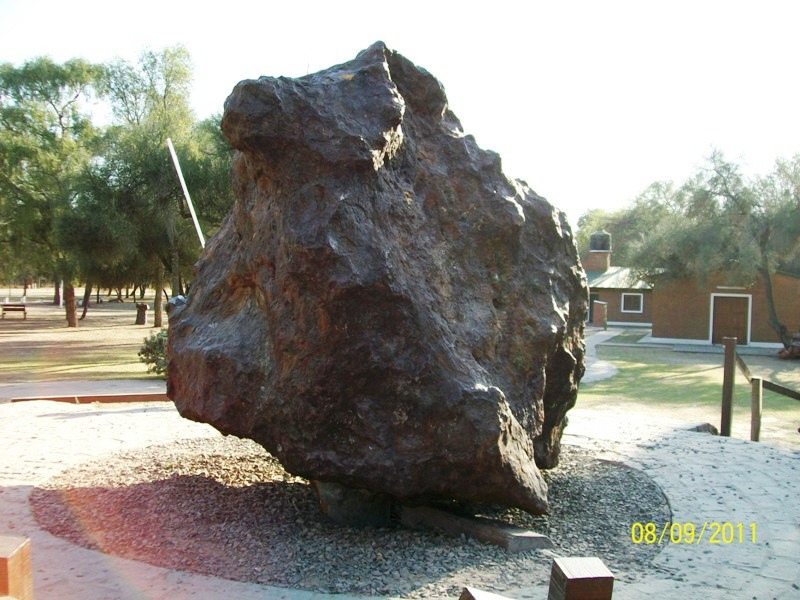 Campo del Cielo meteorite, El Chaco fragment.